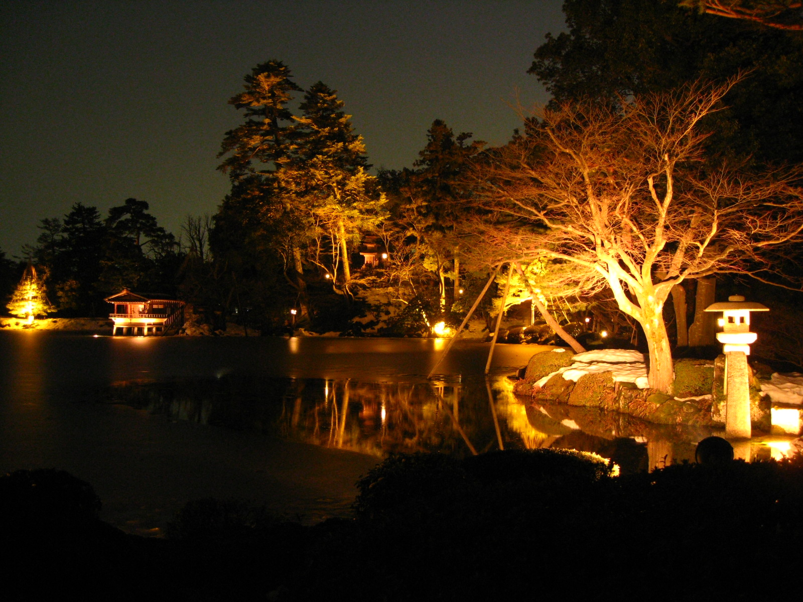 Light up in Kenroku-en 2011